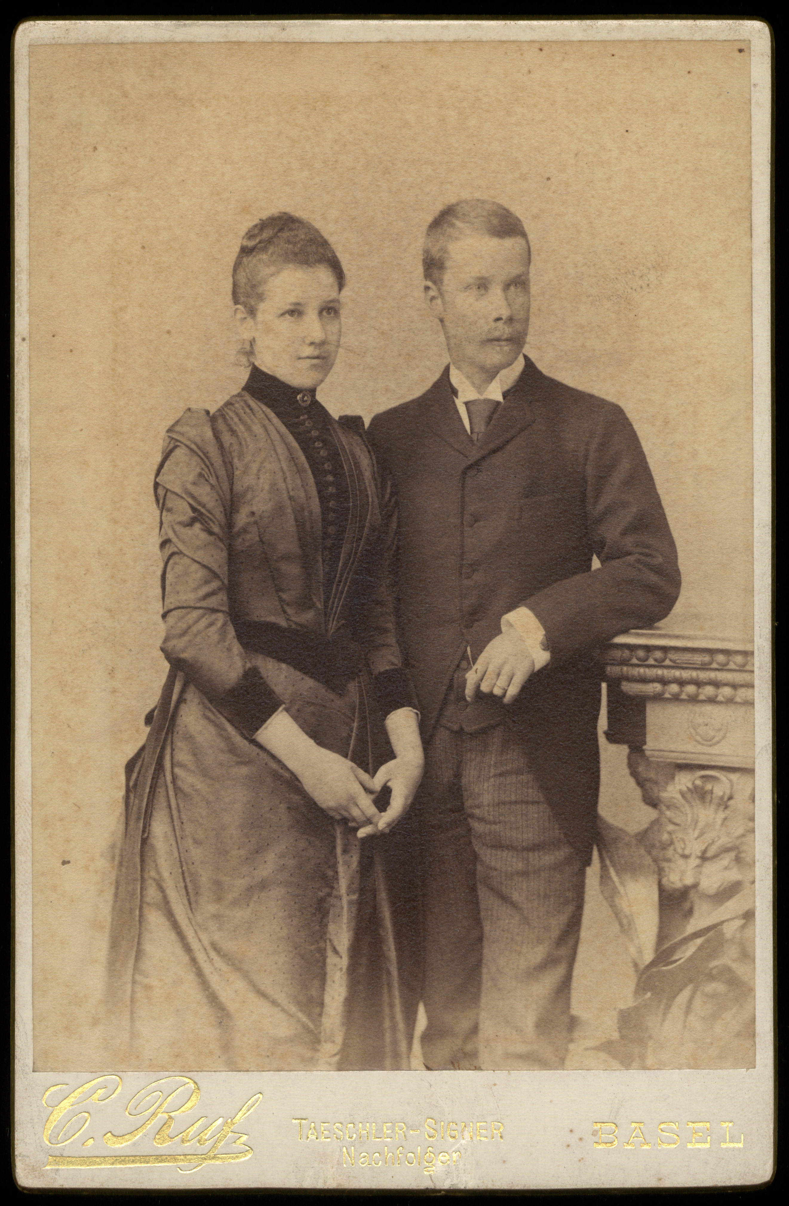 Portrait of Eberhard Vischer (1865-1946) and Valérie Koechlin (1868-1956), photo